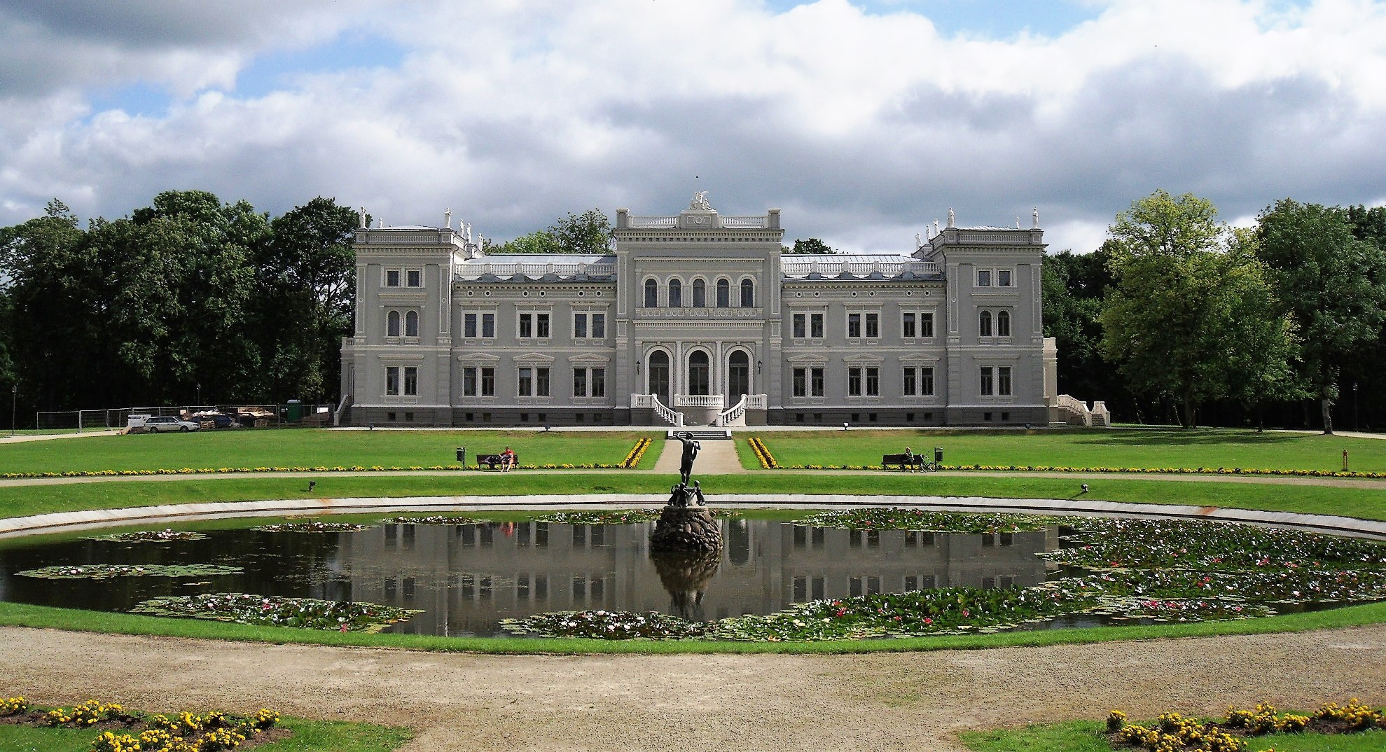 Plungė manor (renewed). Photo taken in 2013.